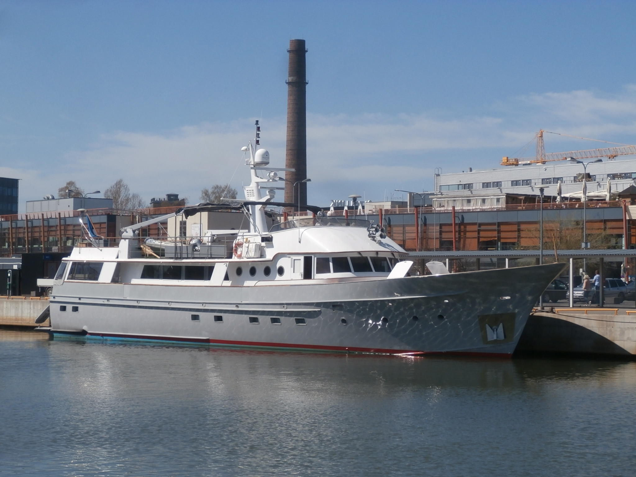 Mojito at quay 22 Old City Marina Tallinn 7 May 2018